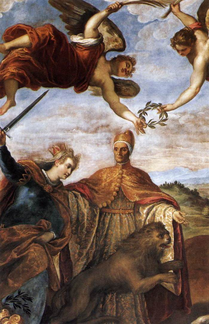 Doge Leonardo Loredan, powers of Europe, symbolized by allegorical figures